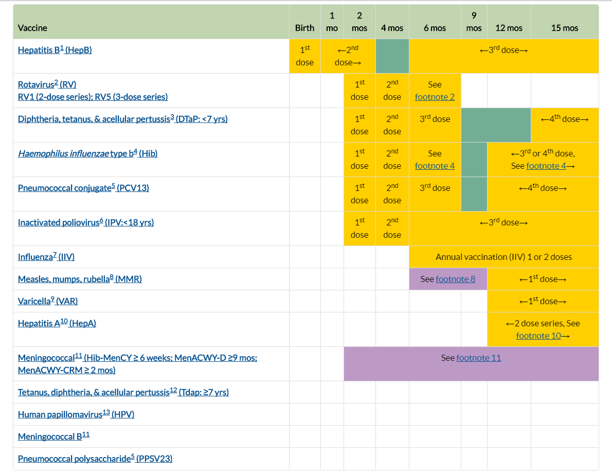 2017 Immunization Schedule for children in the US